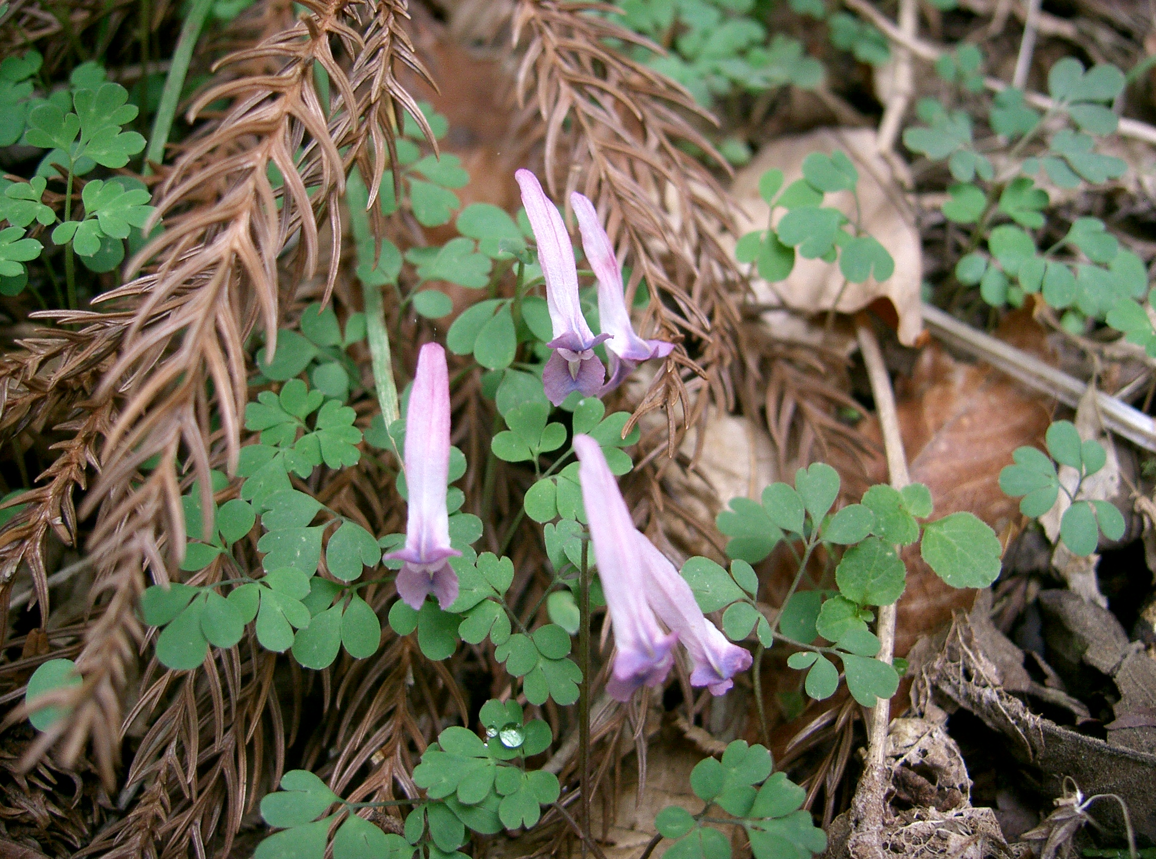 Scientific name Corydalis decumbens